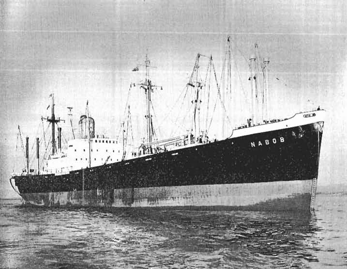 The cargo ship Nabob (the former HMS Nabob (D77)) in August 1964, on a visit to Vancouver for a 20th anniversary event for its former officers and men.